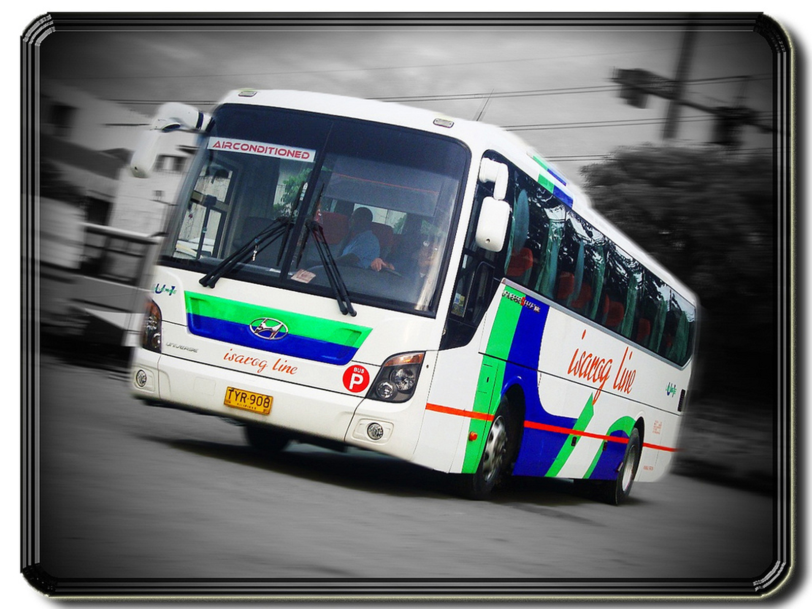 . ISAROG LINE Express Transport, Incorporated - Hyundai Universe Space Luxury - U-1 Taken at Araneta Center Cubao Bus Terminal Station - July 24, 2010 ISAROG LINE EXPRESS TRANSPORT, INCORPORATED Registration Number: TYR - 908 Bus Fleet Number: U-1 Classification: Airconditioned Provincial Operation Bus Coachbuilder: Hyundai Motor Company Chassis: KMJKJ18BPSC Model: Hyundai Universe Space Luxury Engine: Hyundai D6AB-d Displacement: 677.21 cu. inches (11,149 cc / 11.1 Liters) Cylinders: Inline-6 Aspiration: Turbocharged Power Output: 295.89 bhp (300 PS - metric hp / 223.71 kW) @ 2,200 rpm Torque Output: 794.99 lb.ft (1,078 N.m) @ 1,400rpm Transmission: 5-Speed Forward, 1-Speed Reverse Maximum Speed: 78.75 mph (126 km/hr) Layout: Rear-Mounted Engine Rear-Wheel Drive Airconditioning Unit: Dependent Overhead Unit Suspension: Air-Suspension Seating Configuration: 2x2 Seating Capacity: 40 Passengers Fuel Tank Capacity: 81.809 Gallons (310 Liters) Overall length: 38.65 feet (11.78 Meters) Overall width: 8.20 feet (2.50 Meters) Overall height: 10.96 feet (3.34 Meters) Wheel Base: 19.19 feet (5.85 Meters) Body Overhang (Front): 8.83 feet (2.69 Meters) Body Overhang (Rear): 10.63 feet (3.24 Meters) Tread (Front): 6.73 feet (2.05 Meters) Tread (Rear): 6.10 feet (1.86 Meters) Gross Vehicle Weight: 39,302 lbs. (17,800 kg)